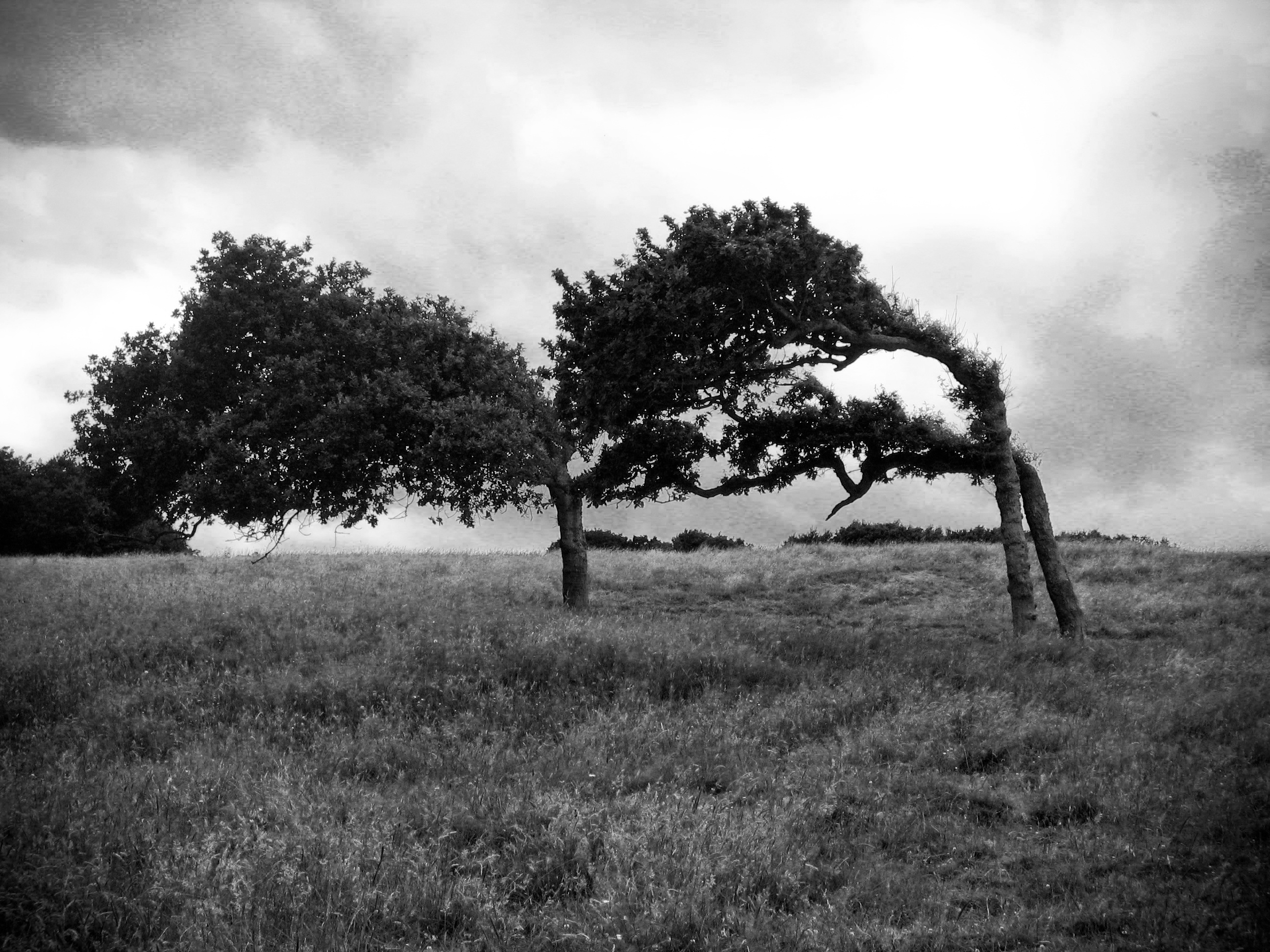 Windswept trees – "It's hard to live on top of the cliffs. Taken during a hike on the coast near Dieppe, Normandy."